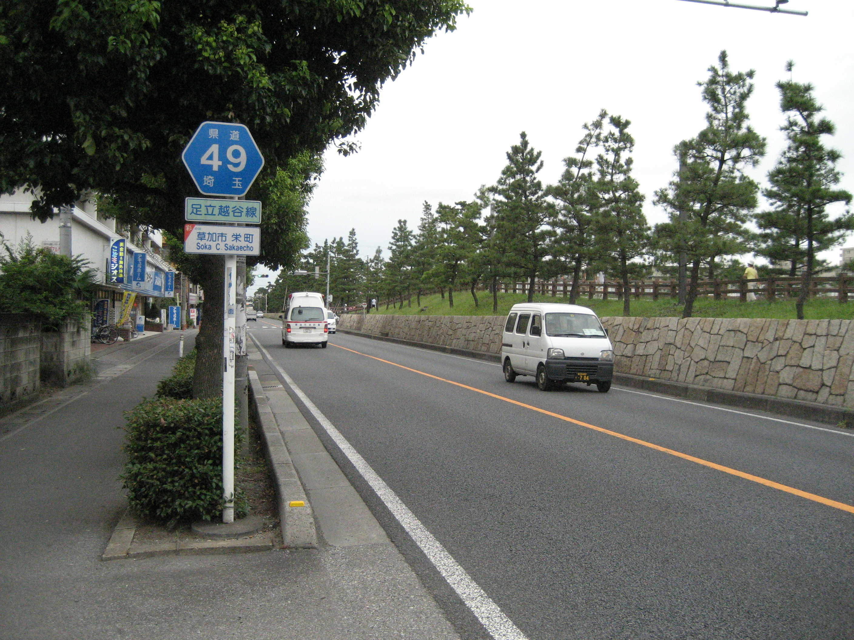 Saitama Prefectural Road Route 49 in Soka City